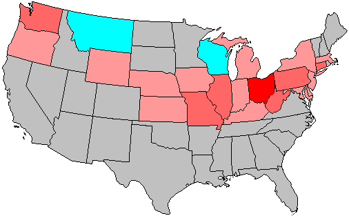 Summary of party change of U.S. house seats in the 1942 House election. Stripes indicate a tie between the gains of two or more parties. Legend: 6+ Democratic seat pickup 3-5 Democratic seat pickup 1-2 Democratic seat pickup 1-2 Republican seat pickup 3-5 Republican seat pickup 6+ Republican seat pickup Note: years ending in 2 may have inconsistent results due to redistricting.